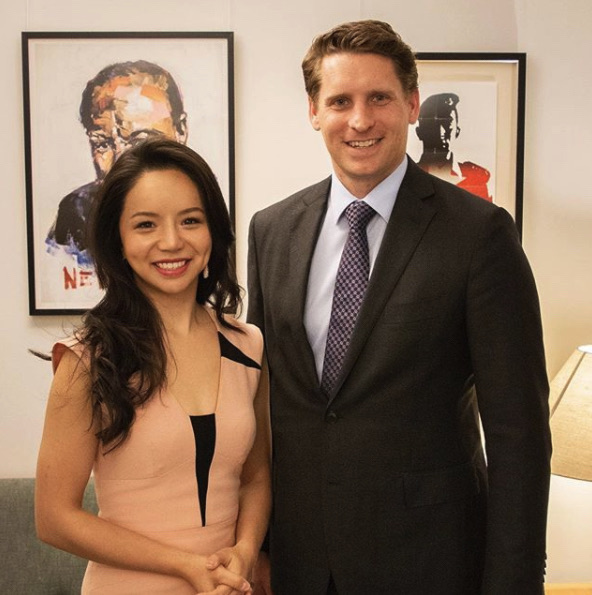 Anastasia Lin and Andrew Hastie MP in Parliamentary Offices 4 December 2018